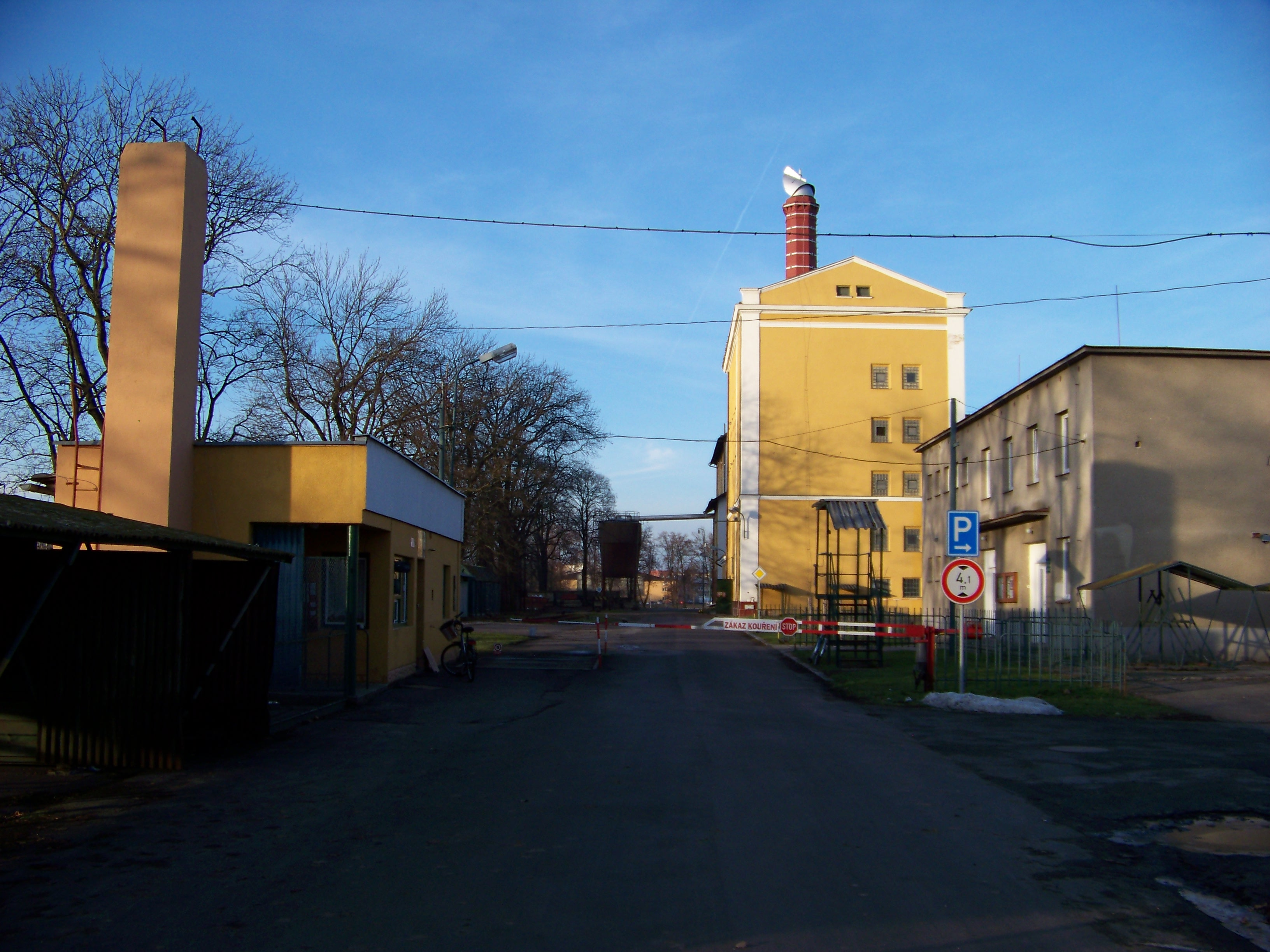 Nymburk, Nymburk District, Central Bohemian Region, Czech Republic. A brewery. - OpenStreetMap(Info)